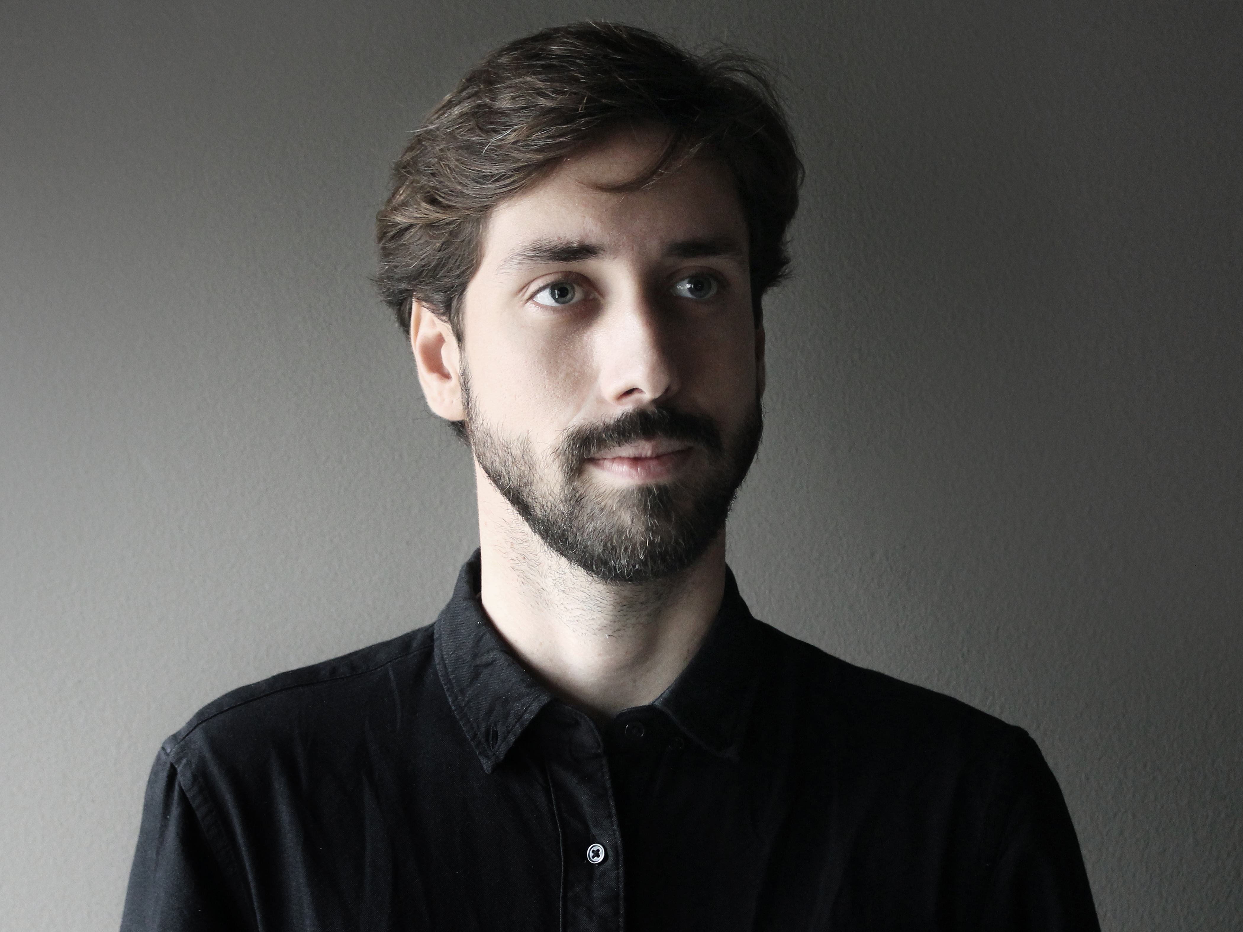 Designer and Artist Gustavo Martini